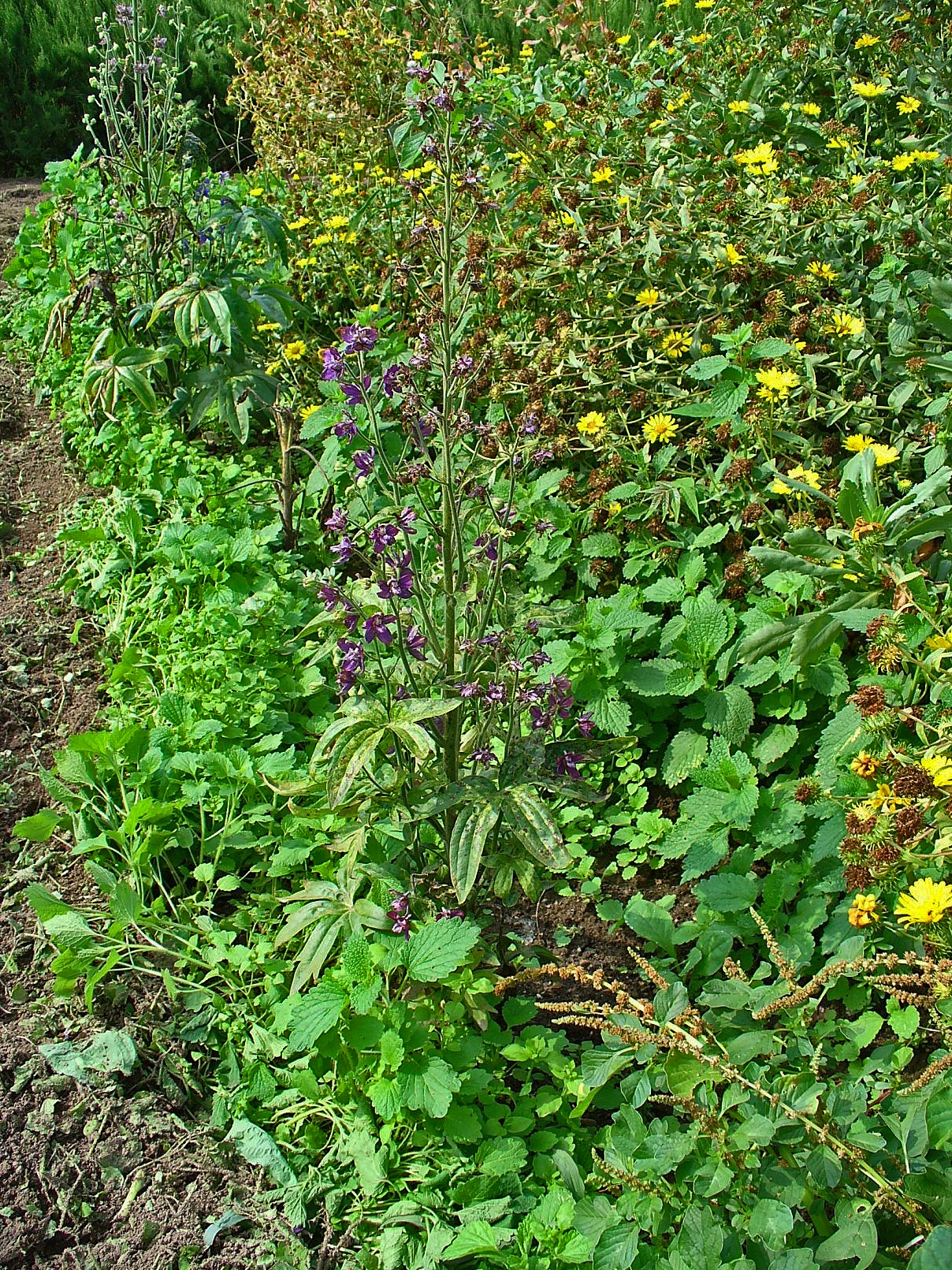 Delphinium staphisagria, Ranunculaceae, Lice-Bane, Stavesacre, habitus. The seeds are used in homeopathy as remedy: Staphisagria (Staph.)